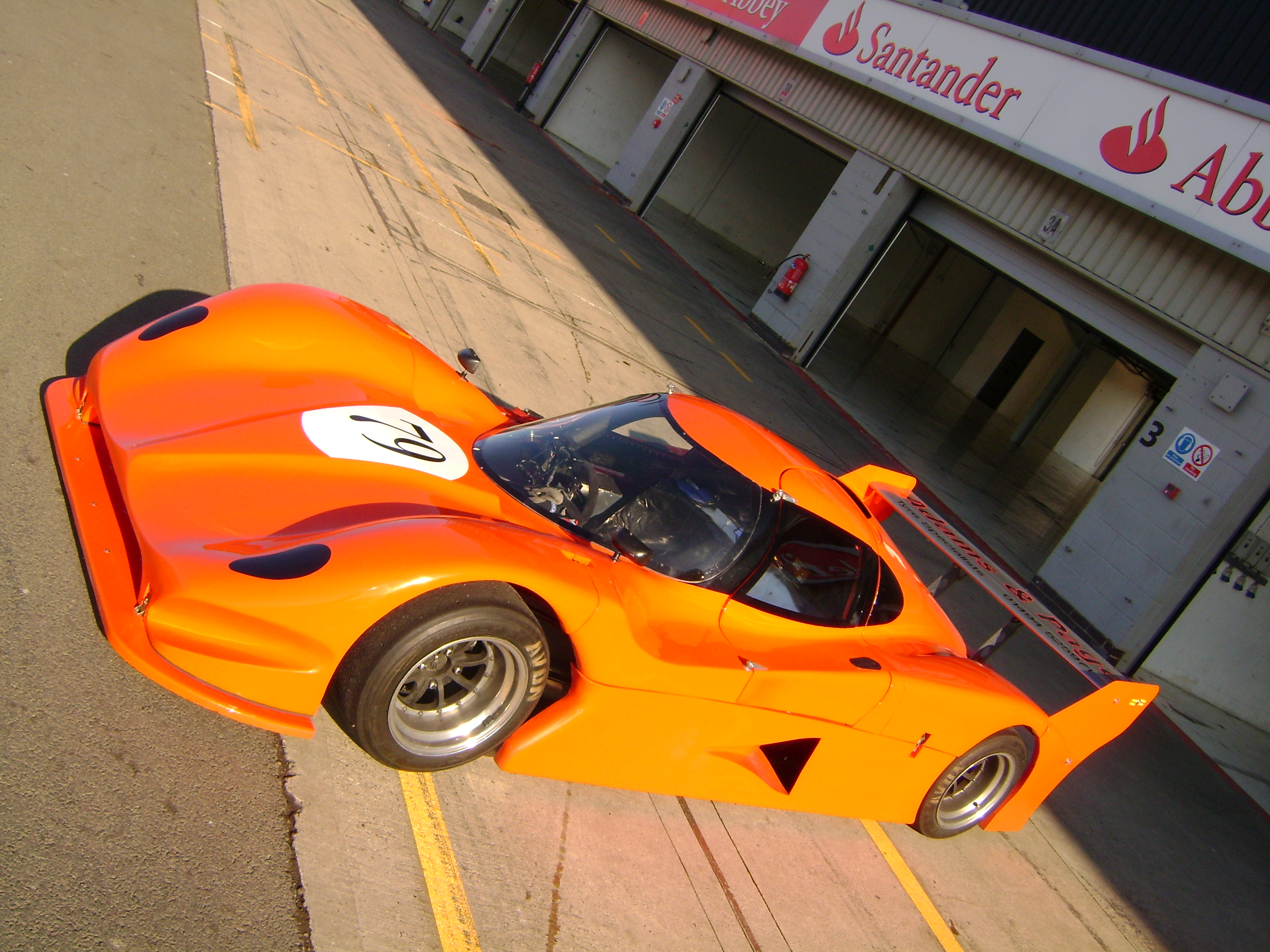 LynxAE LR1300 track and race car